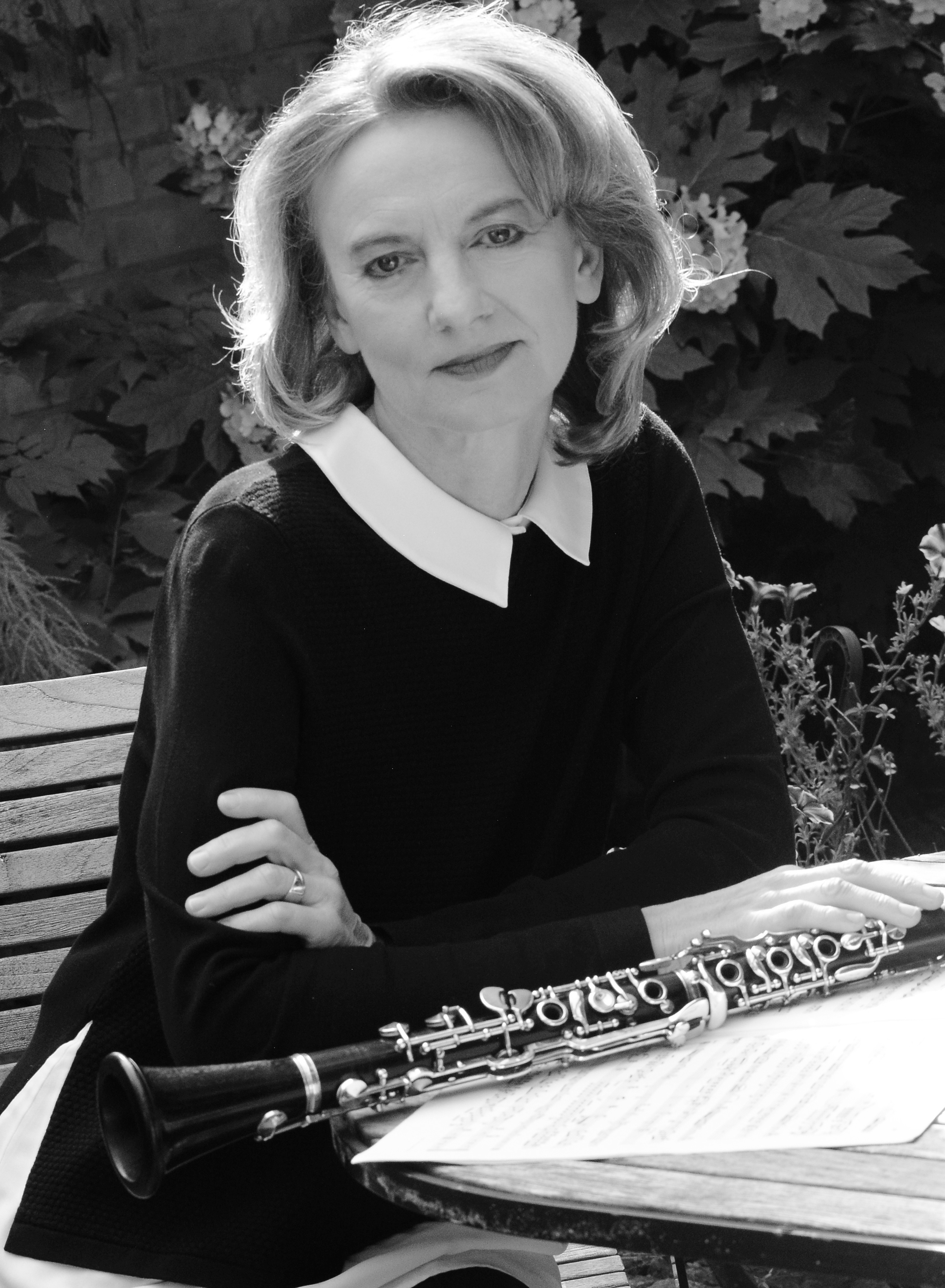 Sabine Meyer, clarinetist